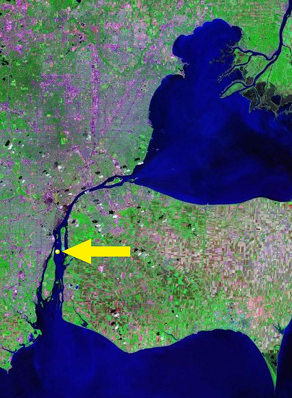 Modified version of the Lake st clair landsat image to illustrate location of Mamajuda Island